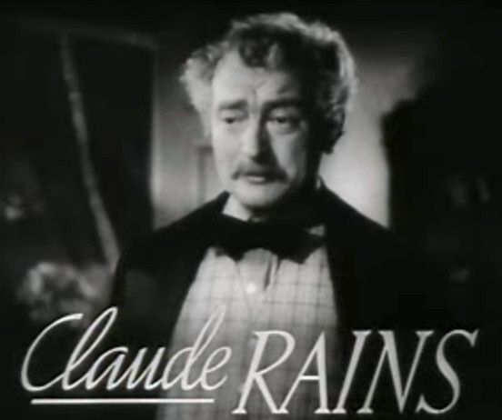 Cropped screenshot of Claude Rains from the trailer for the film Four Daughters